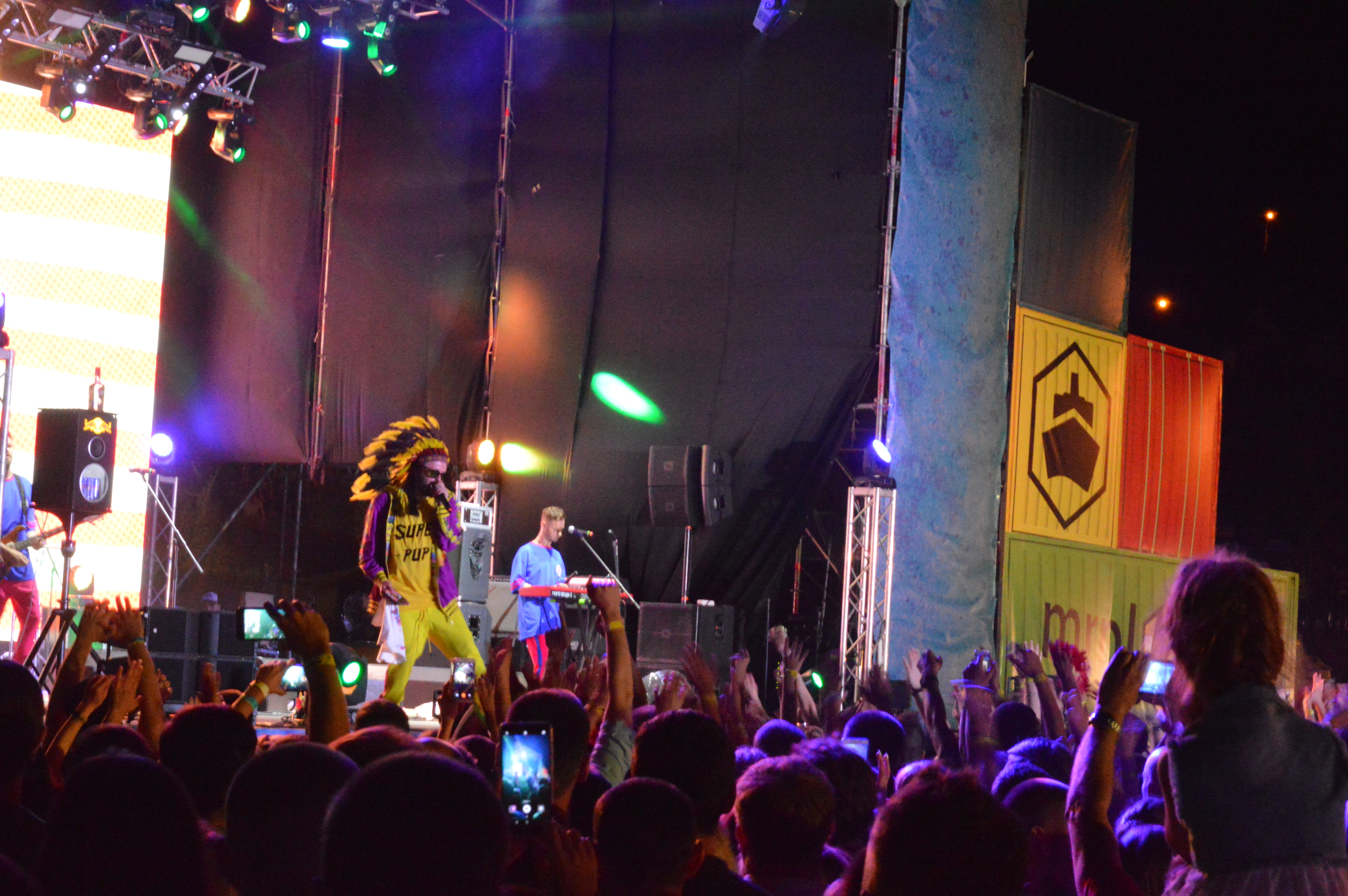 Ukrainian band DZIDZIO at the 2018 MRPL City Festival